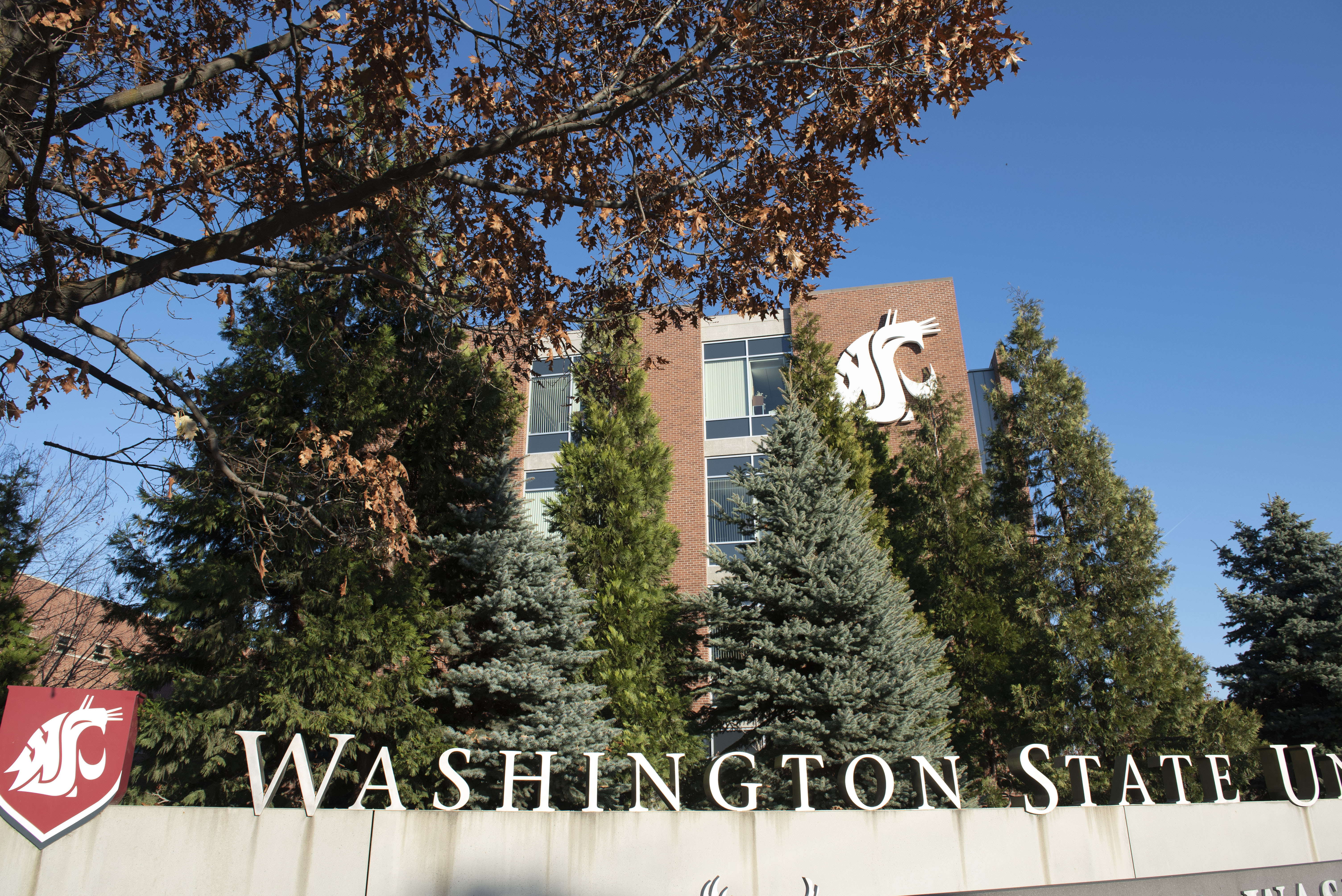 Exterior of the Washington State University College of Nursing building on the WSU Health Sciences Spokane campus.